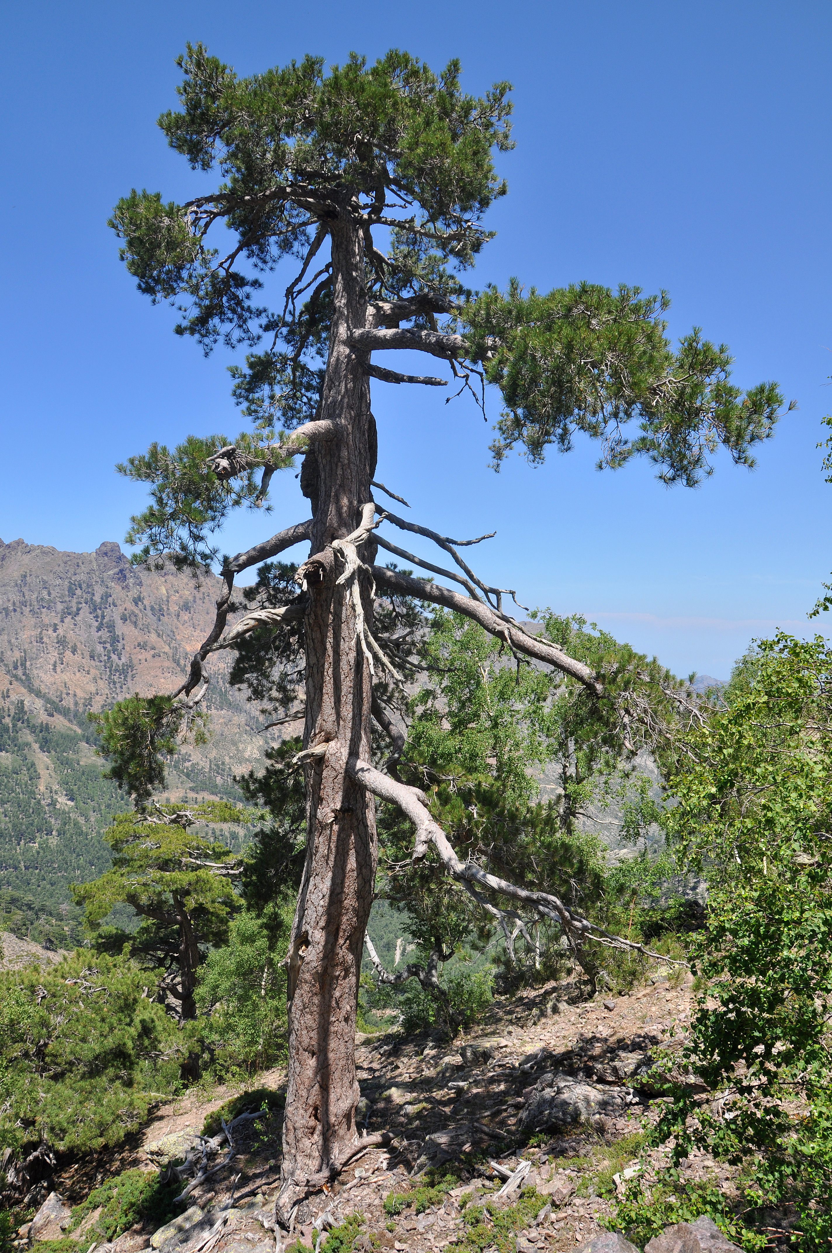 Pinus nigra var. corsicana tree in Corsica